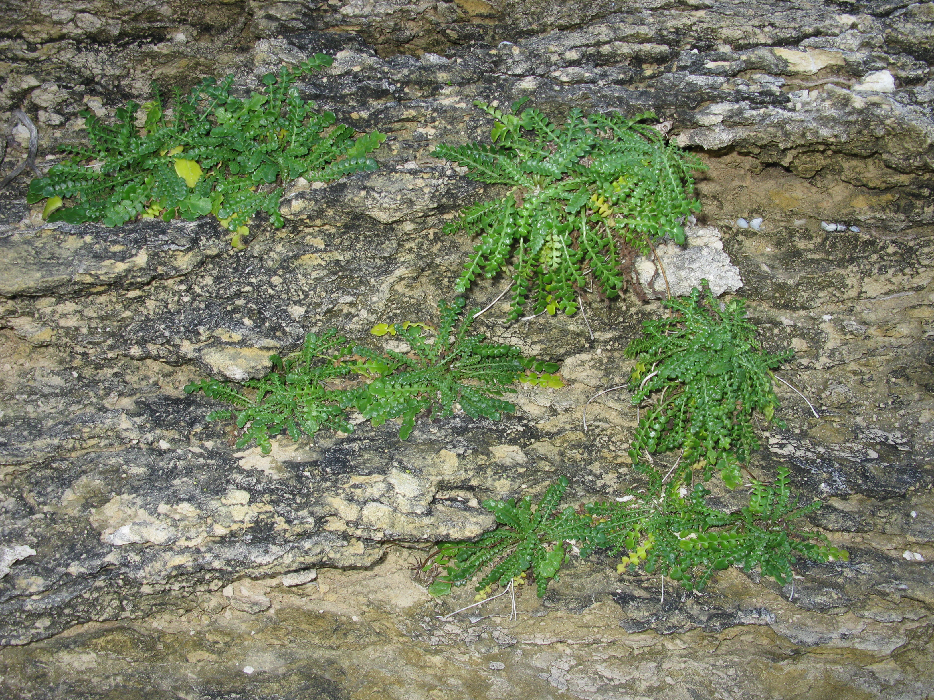 A small population of this Maltese endemic plant on vertical rock faces close to the coast. Photo taken in the island of Gozo, Malta